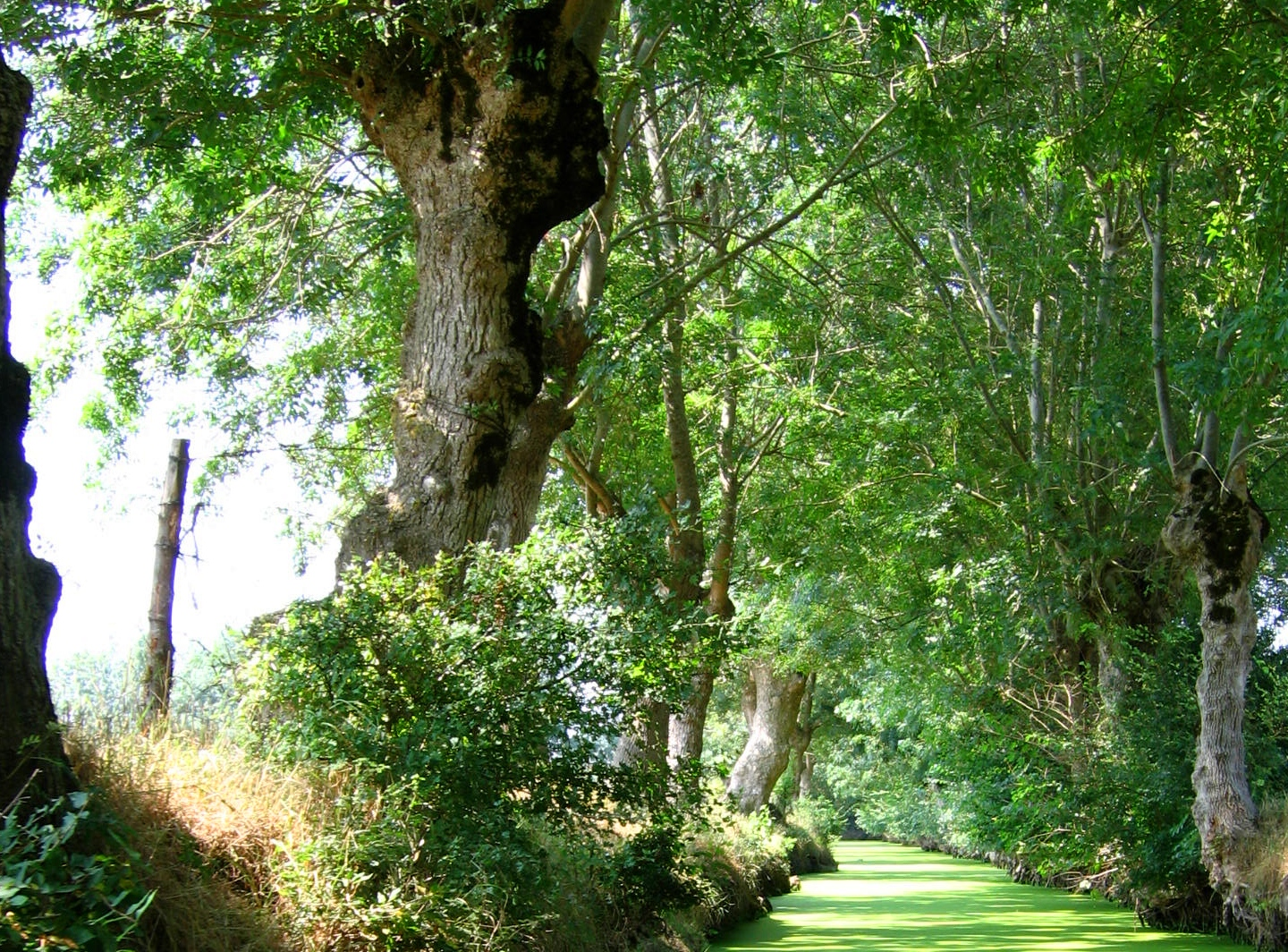 A canal, green with duckweed, in the Marais Poitevin, in Maillezais, Vendée, France.